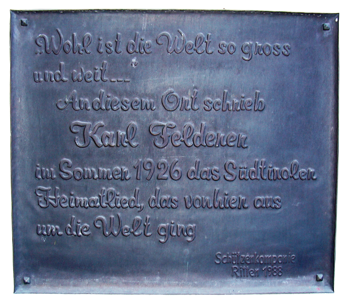 Plaque commemorating Karl Felderer who composed the Südtiroler Heimatlied (South Tyrol Song) in 1926, at Ritten, South Tyrol